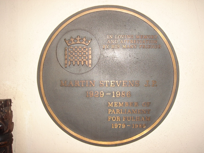 Martin Stevens memorial plaque, All Saints Church, Fulham, London